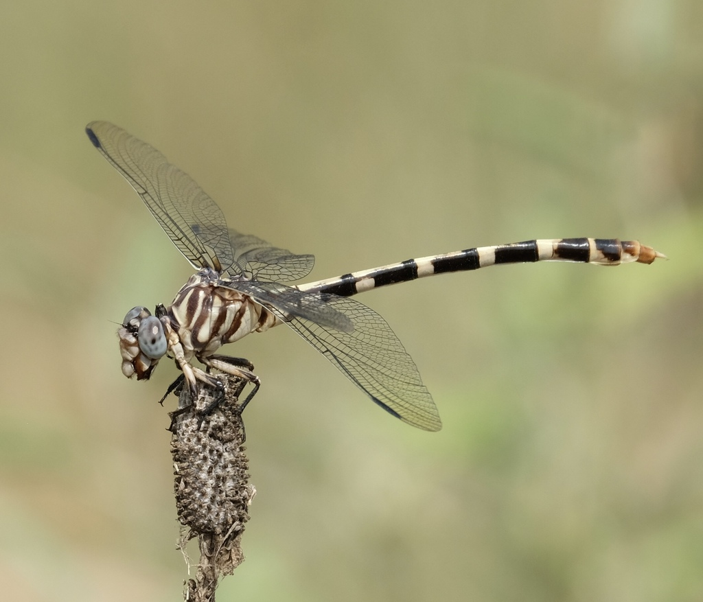 Four-striped Leaftail (Phyllogomphoides stigmatus), 78725, Austin, TX, US